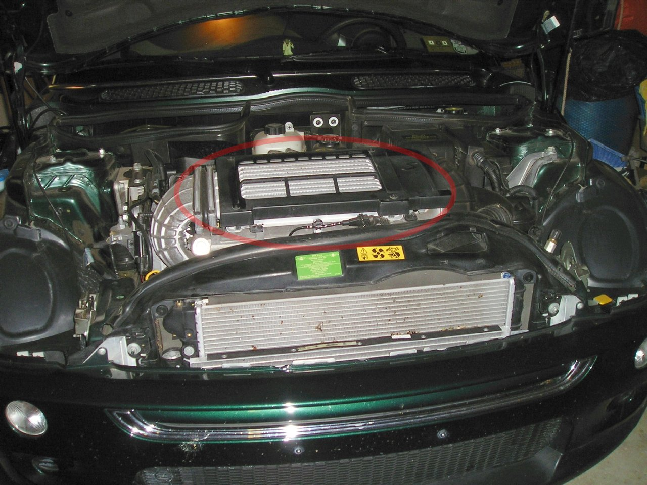 The engine bay of a 2003 BMW MINI Cooper'S with the intercooler circled in red.